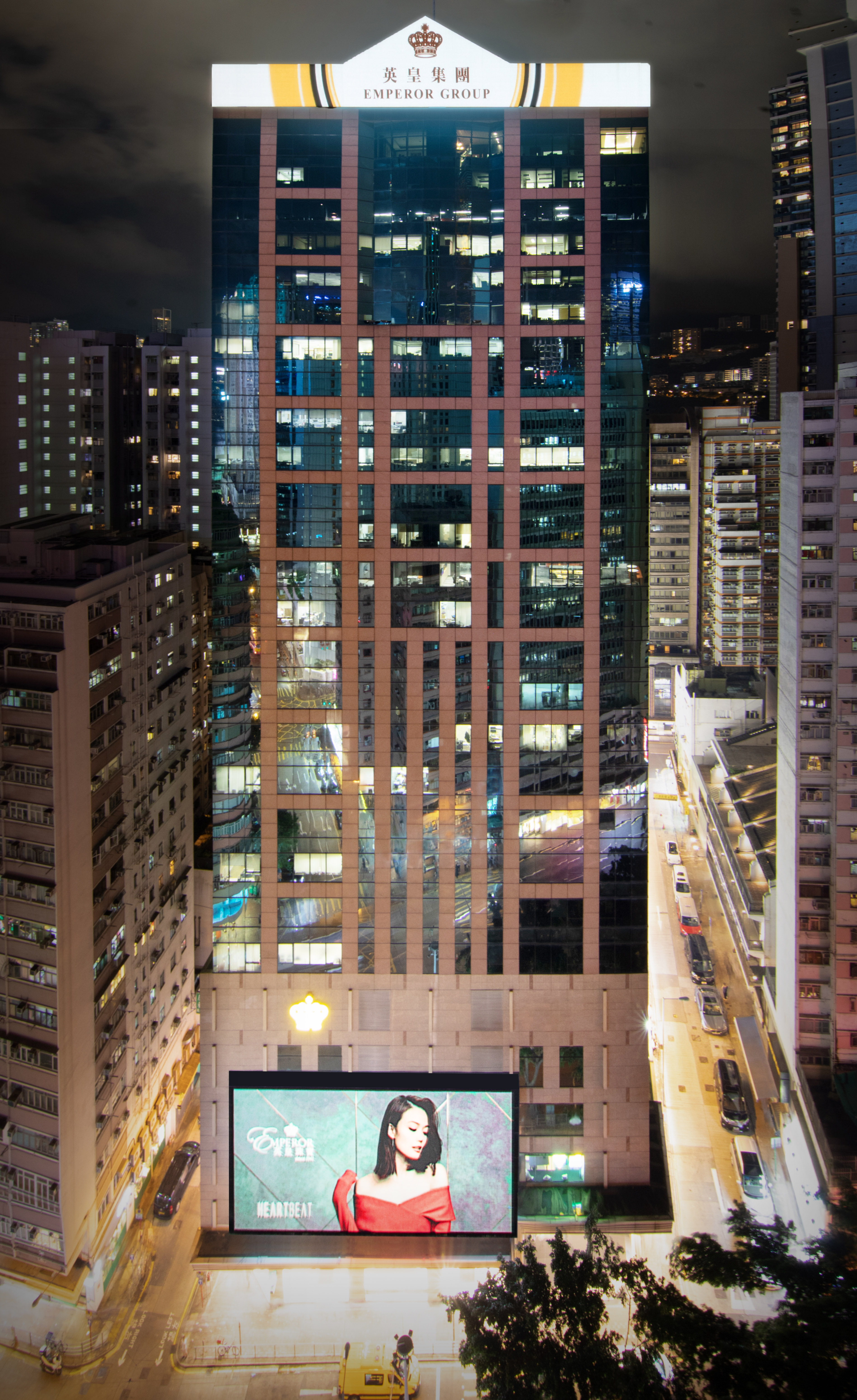 EGC Hong Kong Night